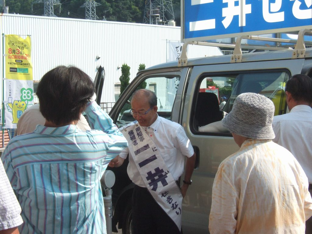 Mr. Sekinari Nii in stumping at Waki Sta. in Governor Election of Yamaguchi Pref. Japan 2008 (Shot at Aug 1st, 2008)